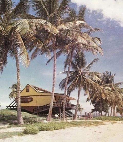 Cabana in Playa Residencial